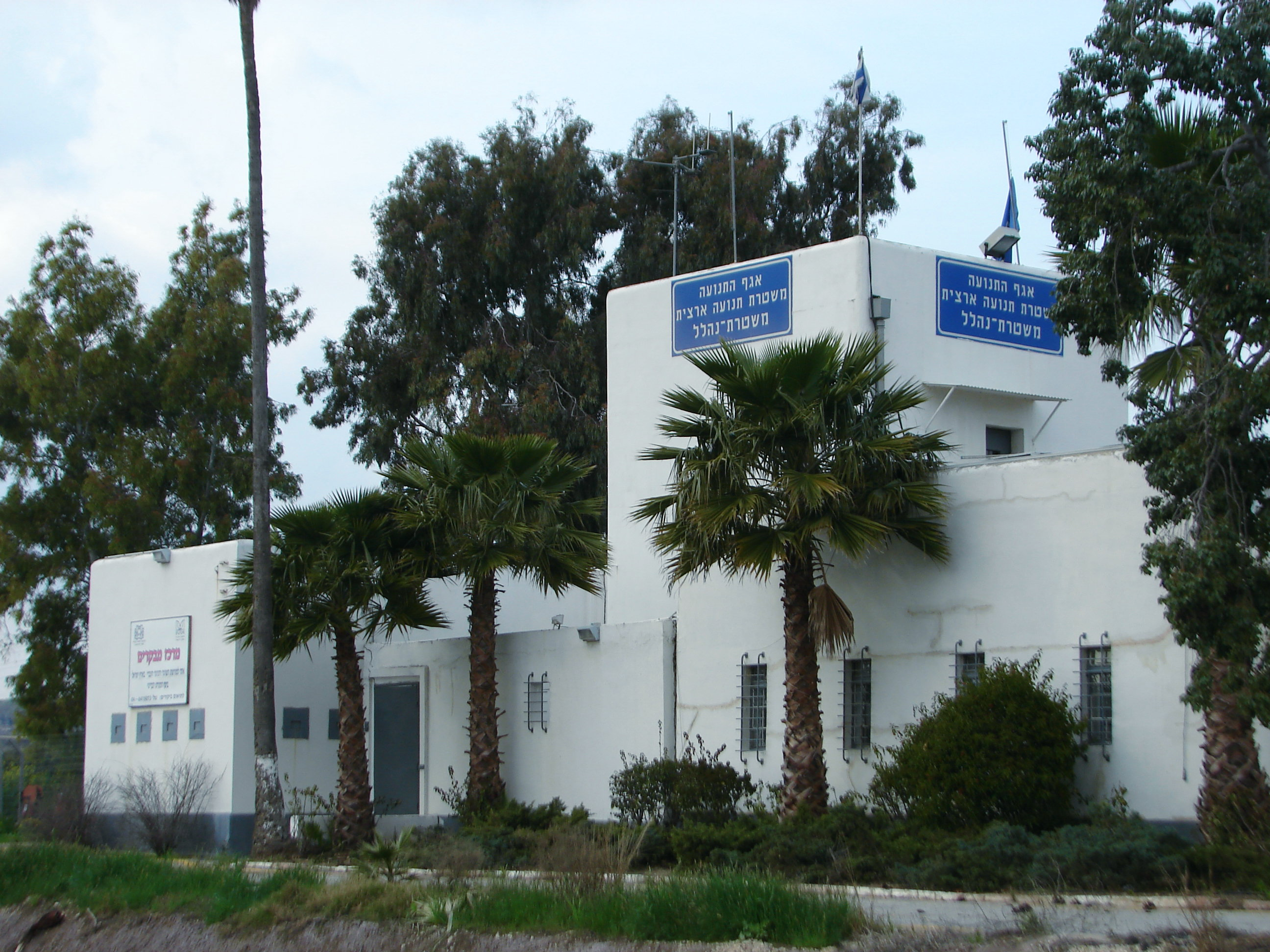 Nahalal Police Station, originally a Teggart Fortress.